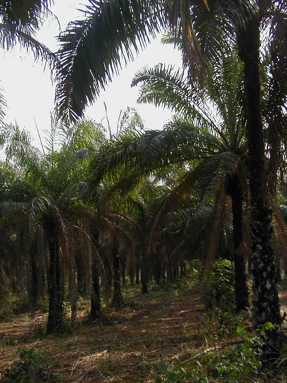 Obafemi Awolowo University Palm farm